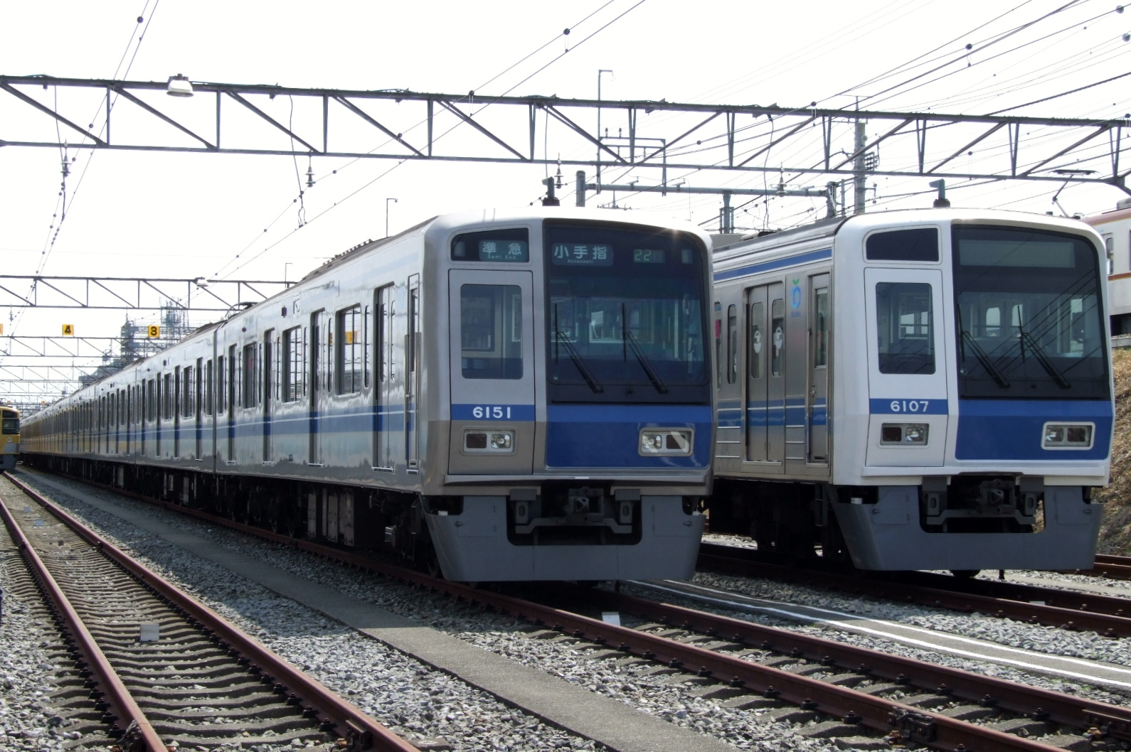 Seibu Railway 6000 series sets 6151 (left ) and 6107 (right) at Kotesashi Depot